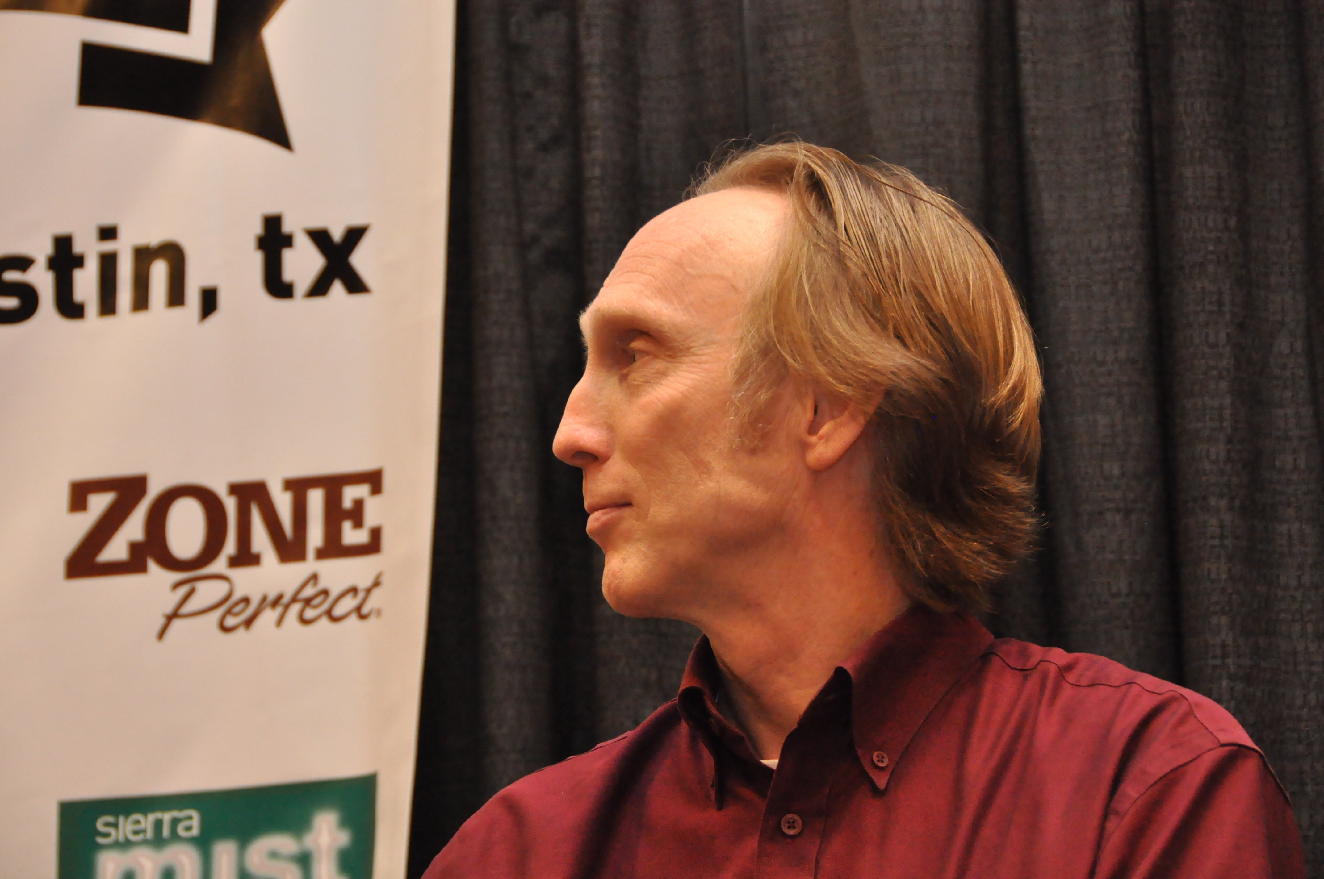 Henry Selick, director of Coraline, speaks on a panel with Robert Rodreguiz during South by Southwest 2009.